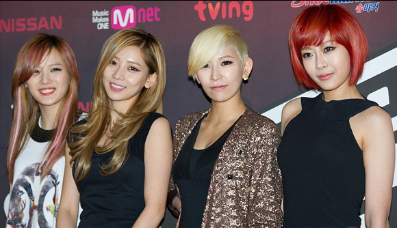 Sunny Hill at the press conference of The Voice Of Korea at Sangam CGV, Mapo-gu, Seoul, South Korea, in February 2012